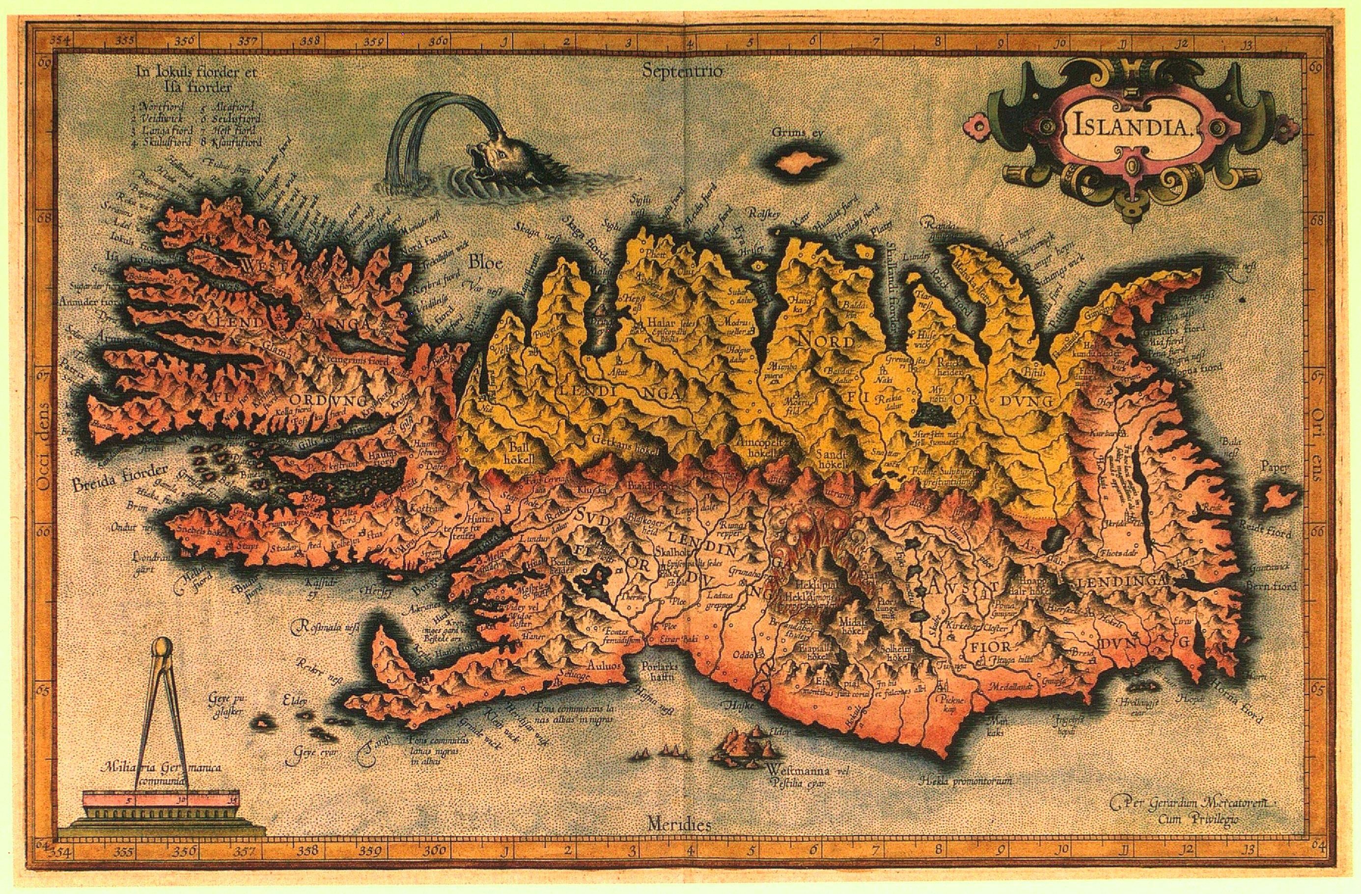 A map of Iceland in the 1595 edition of Mercator’s atlas.